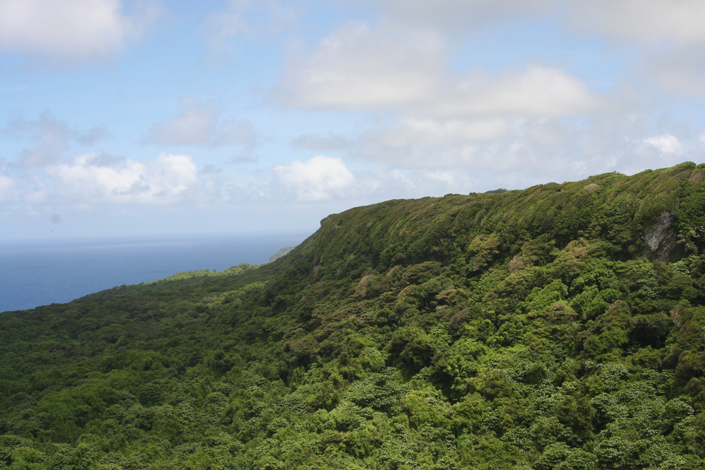 A lovely national park on the eastern side of 'Eua in Tonga. With some restoration and active conservation this place could hold a lot more Polynesian species in ned of help.